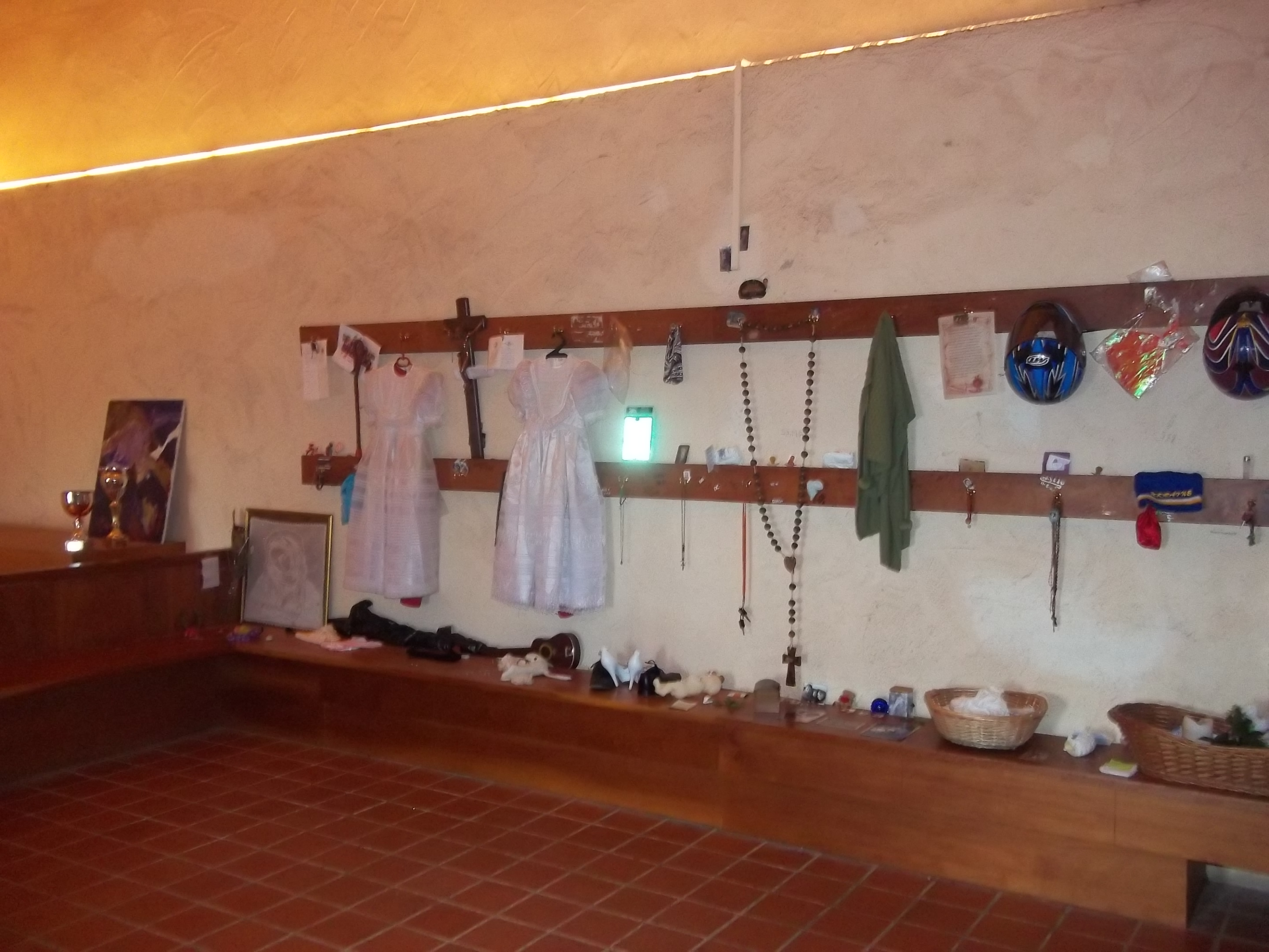 Santa Cova de Montserrat (Holy Cave of Montserrat), Catalonia, Spain.